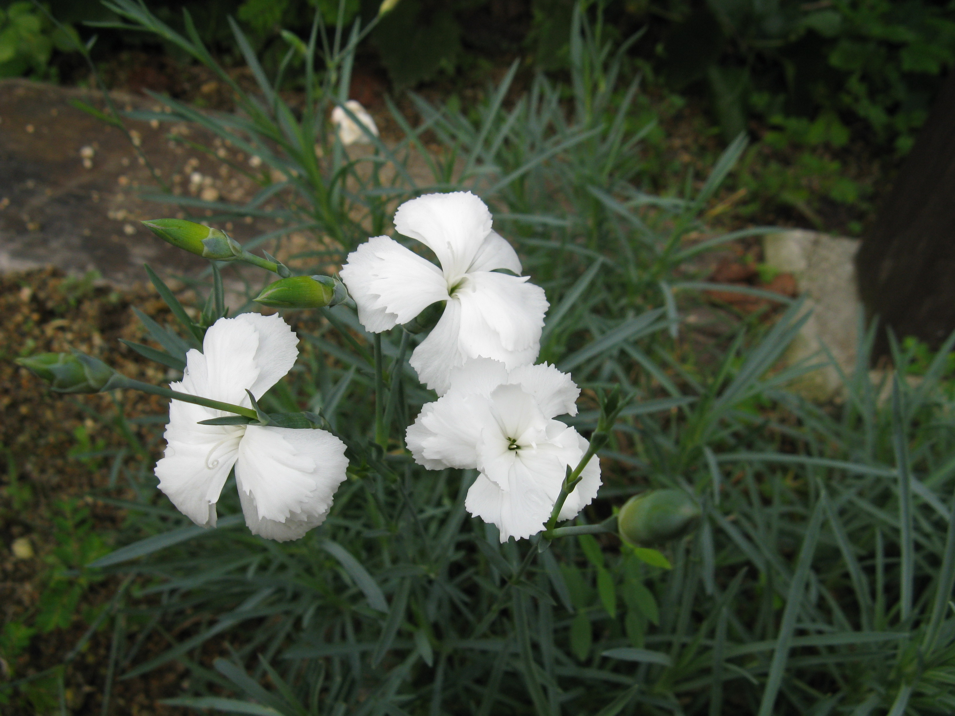 Scientific name Dianthus furcatus Place:Osaka,Japan